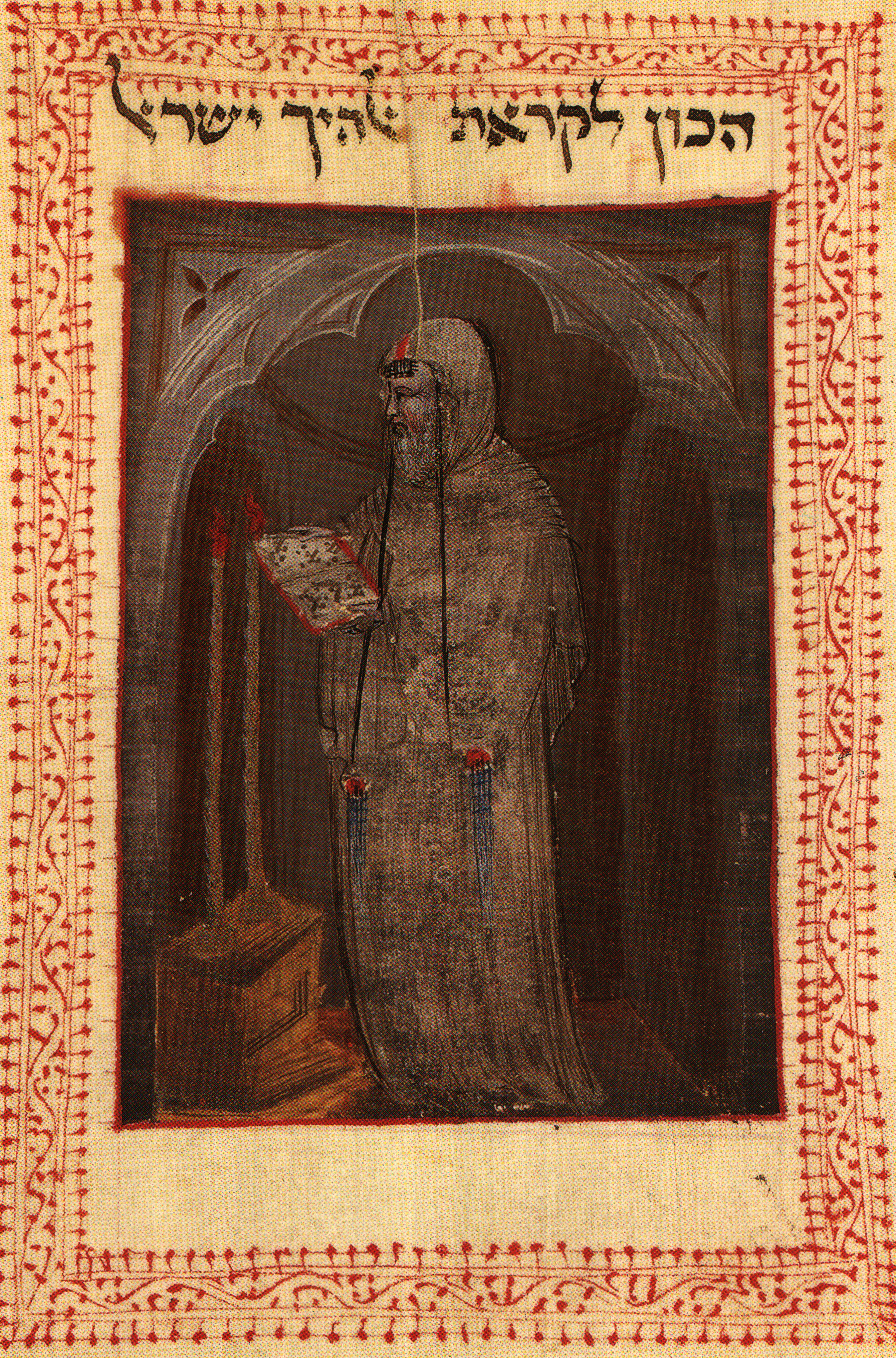 Abraham Abulafia's "Light of the Intellect" 1285, Vat. ebr. 597 leaf 113 recto